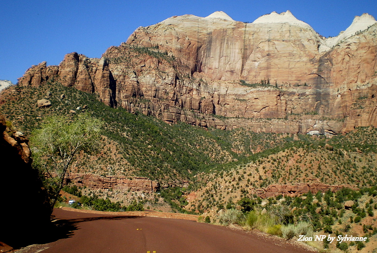 Zion National Park !! Road have matching colors with surrounds !!